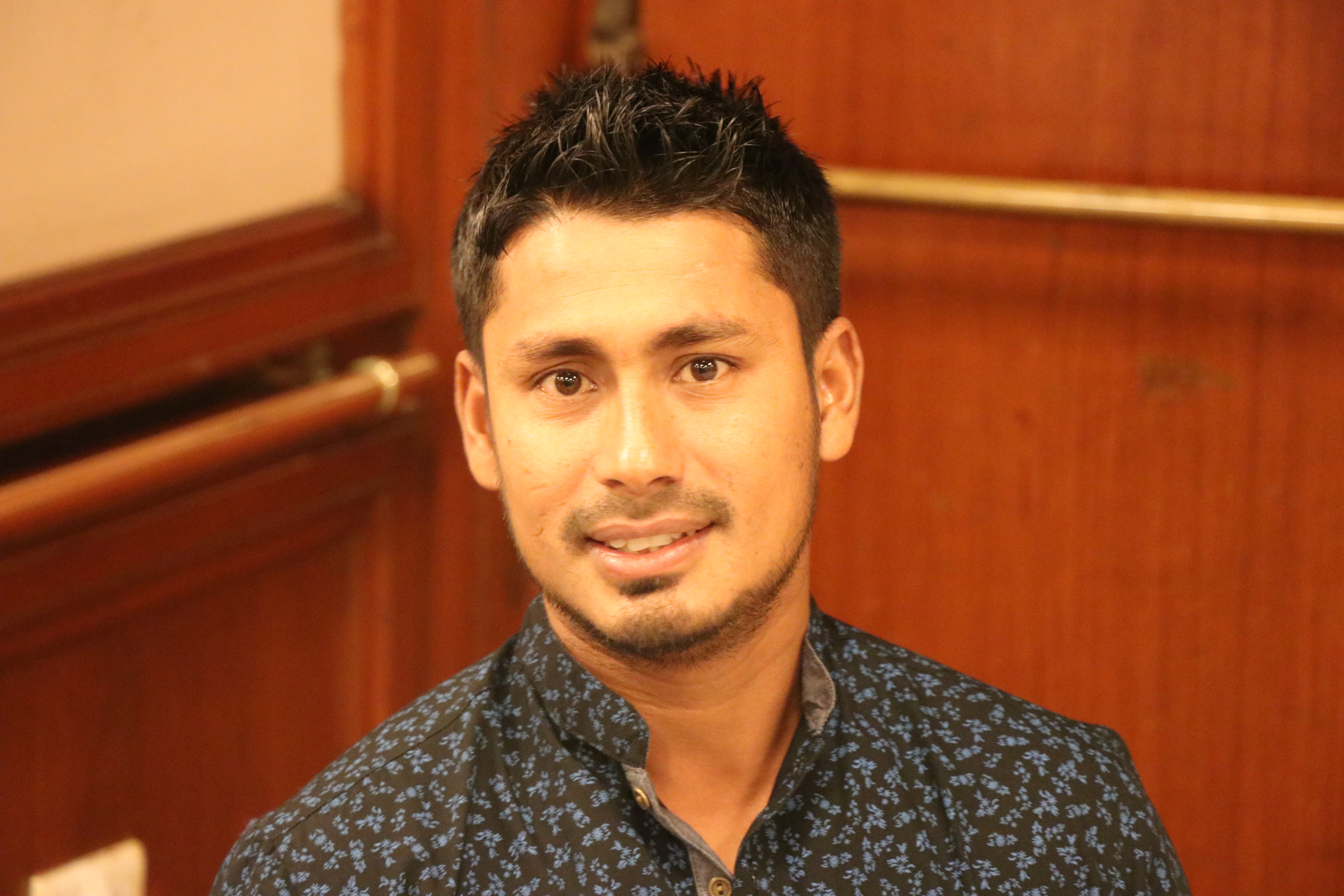 Mohammad Ashraful, the former Captain of Bangladesh National Cricket team